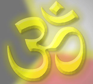 Om on tripartite background